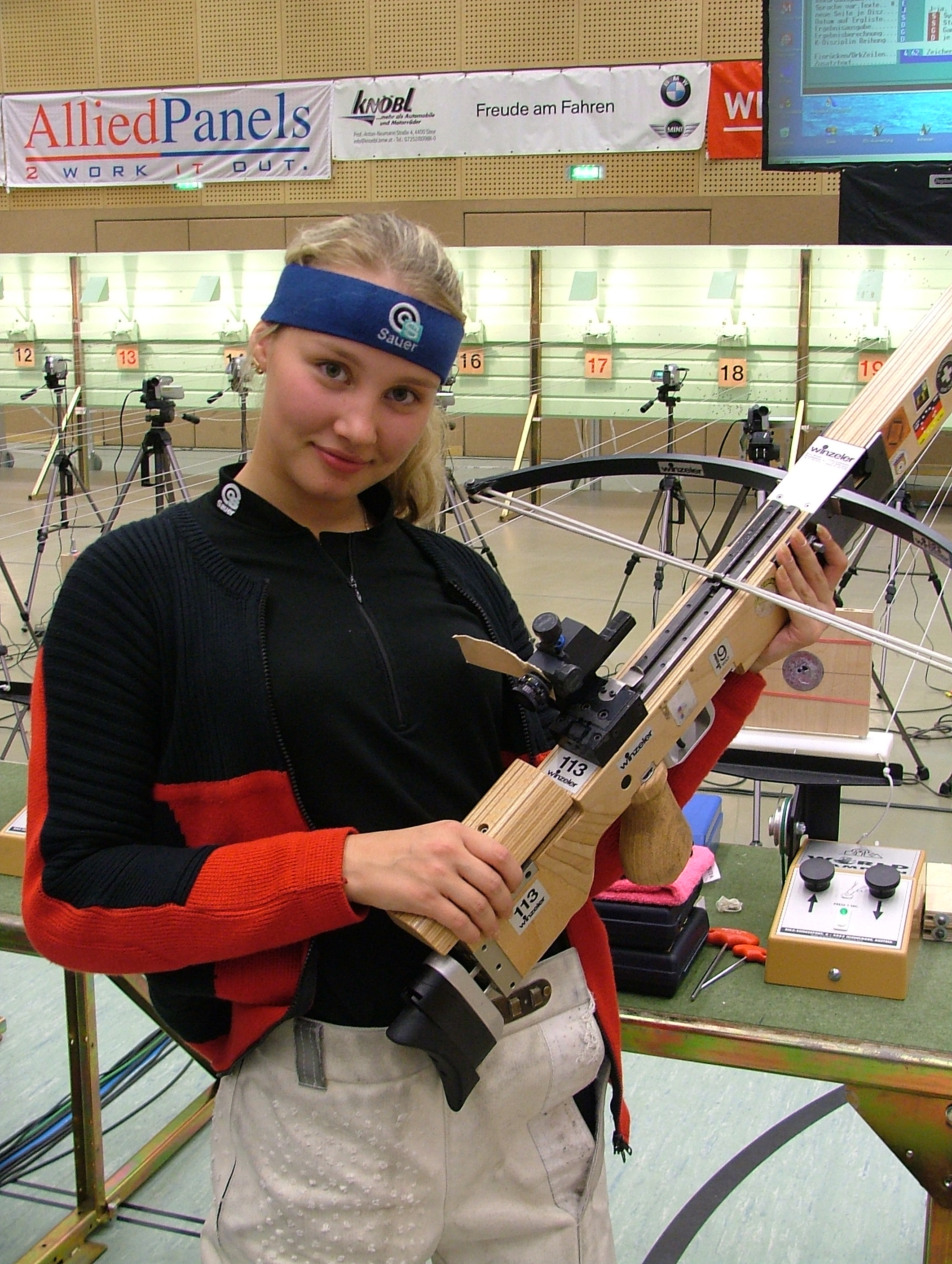 Russian team member Anna Sushko. The photo was taken during the IAU 10m Match Crossbow Championships, Steyr, Austria in 2006